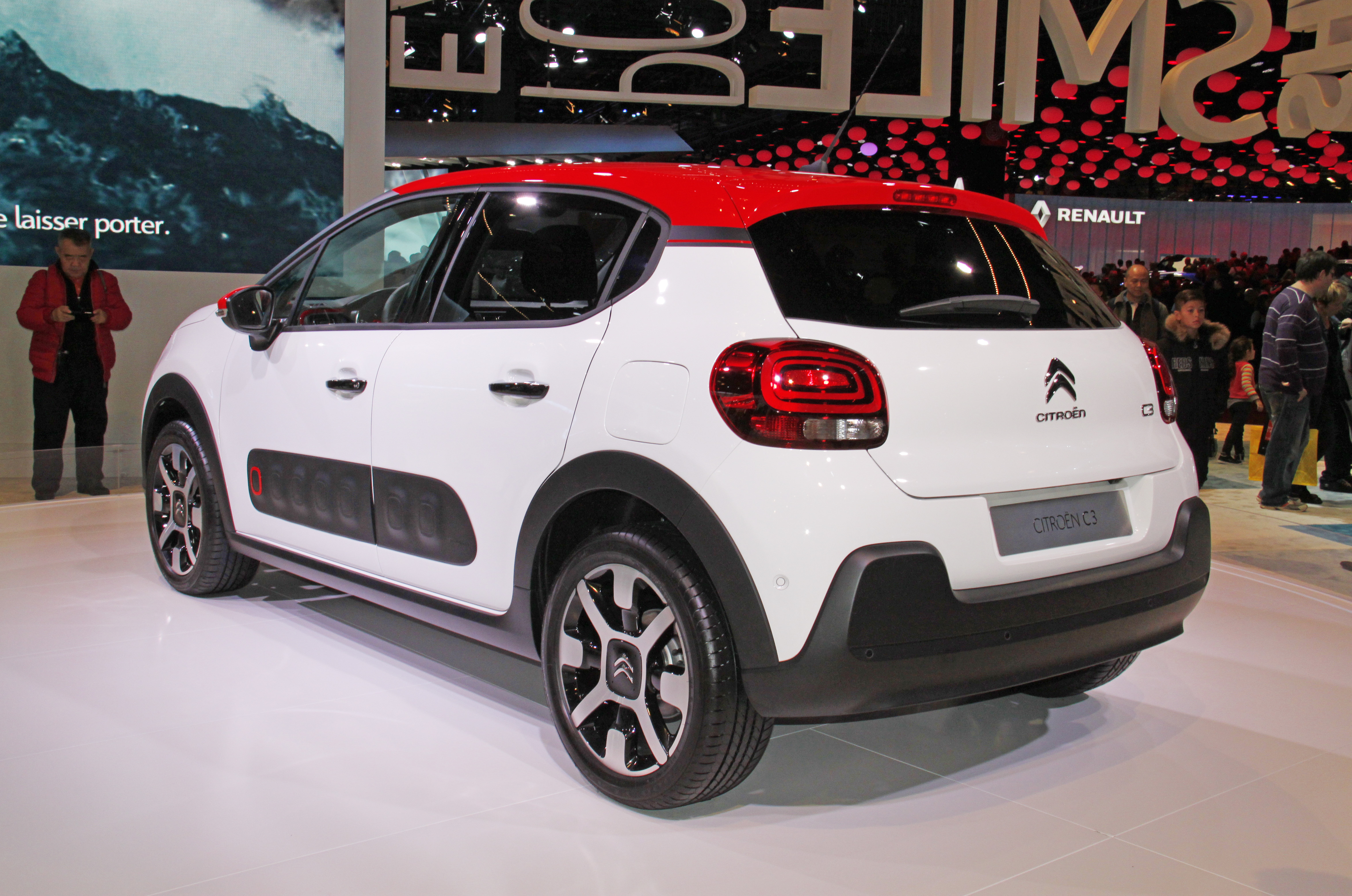 Citroën C3 (3rd gen.) at the 2016 Paris Motor Show